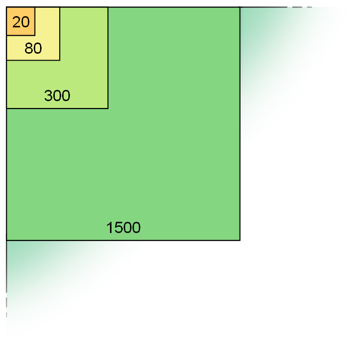 Estimates of uranium resources of the Earth